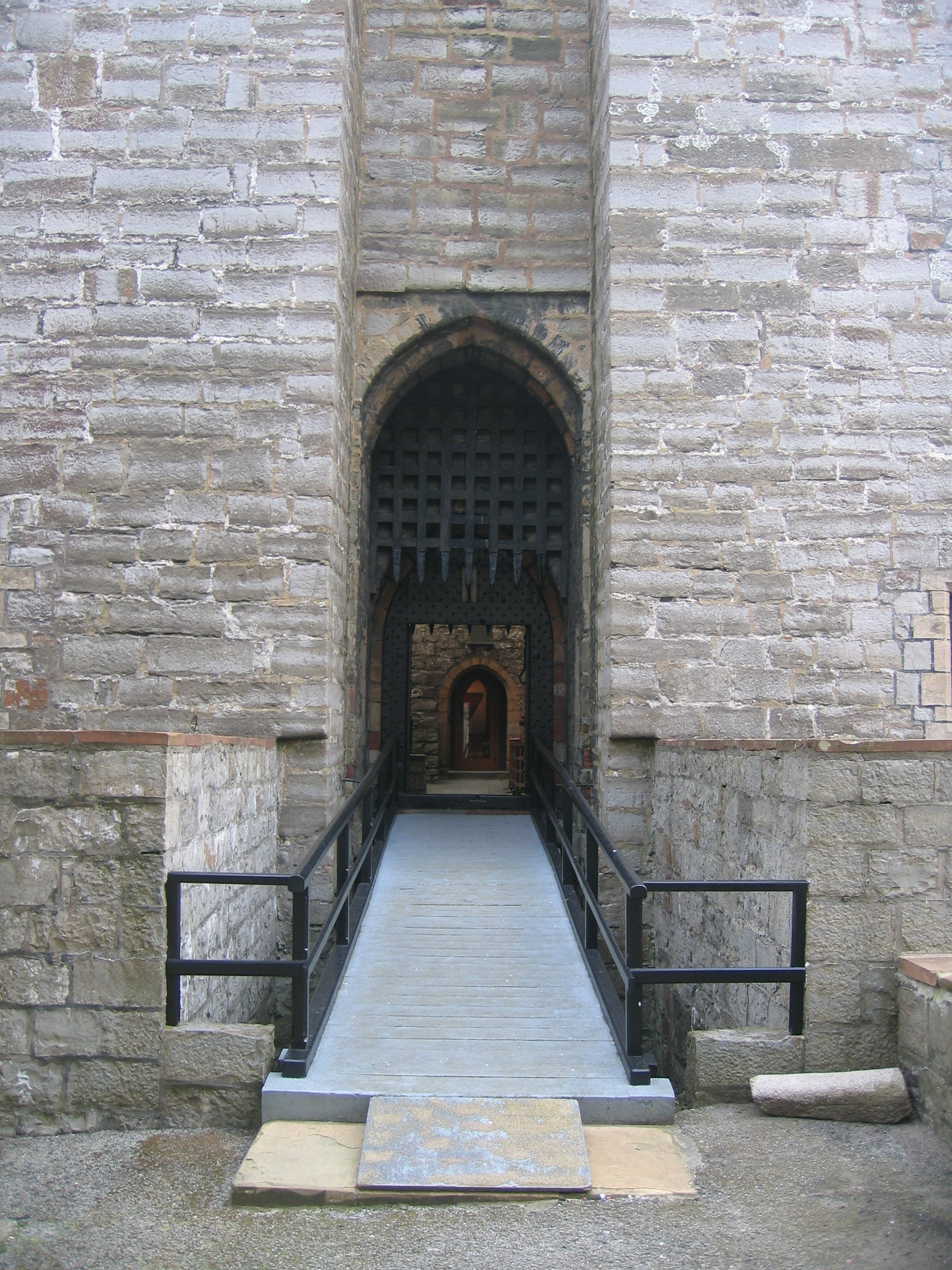 Castle Rushen's fortified inner gatehouse entrance with two portcullis.